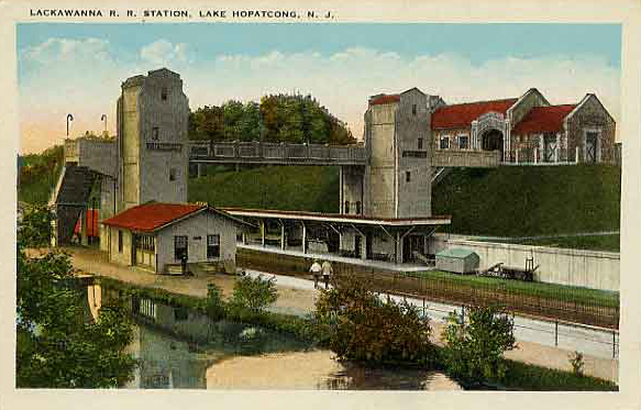 The Lake Hopatcong Station and the Morris Canal facing to the west during the Delaware, Lackawnna and Western Railroad service.